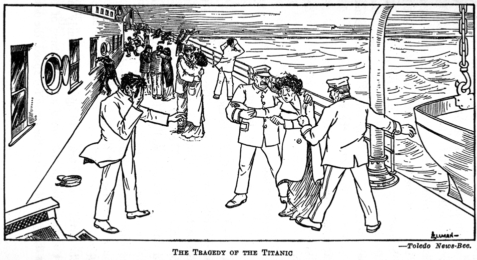 The Tragedy of the Titanic